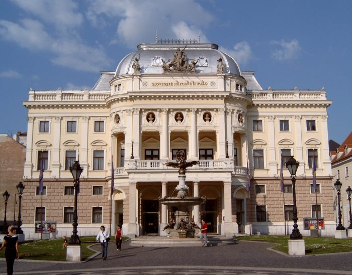 The Slovak National Theatre Author Rafal Konkolewski 2004